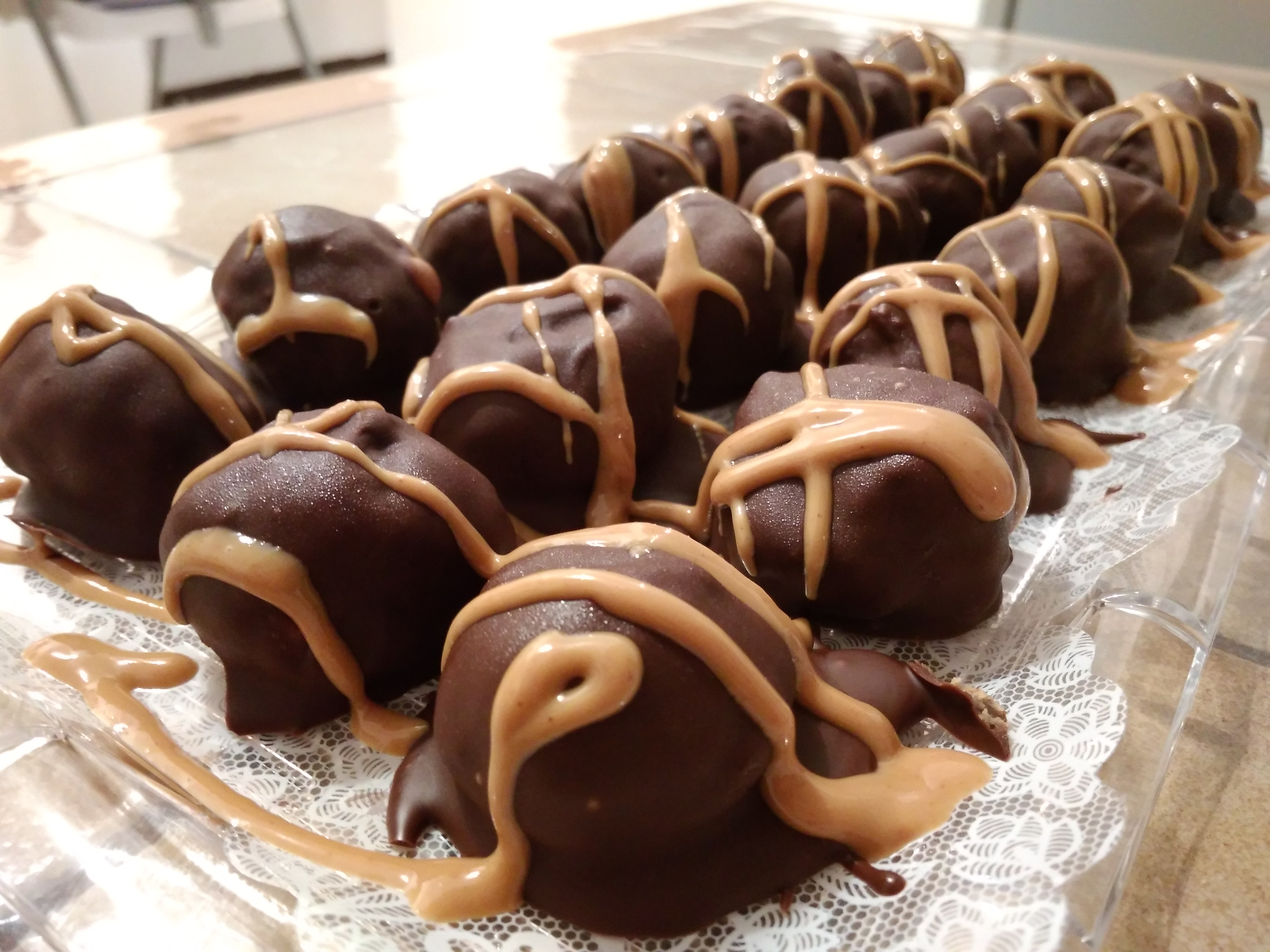 Chocolate truffles with peanut butter